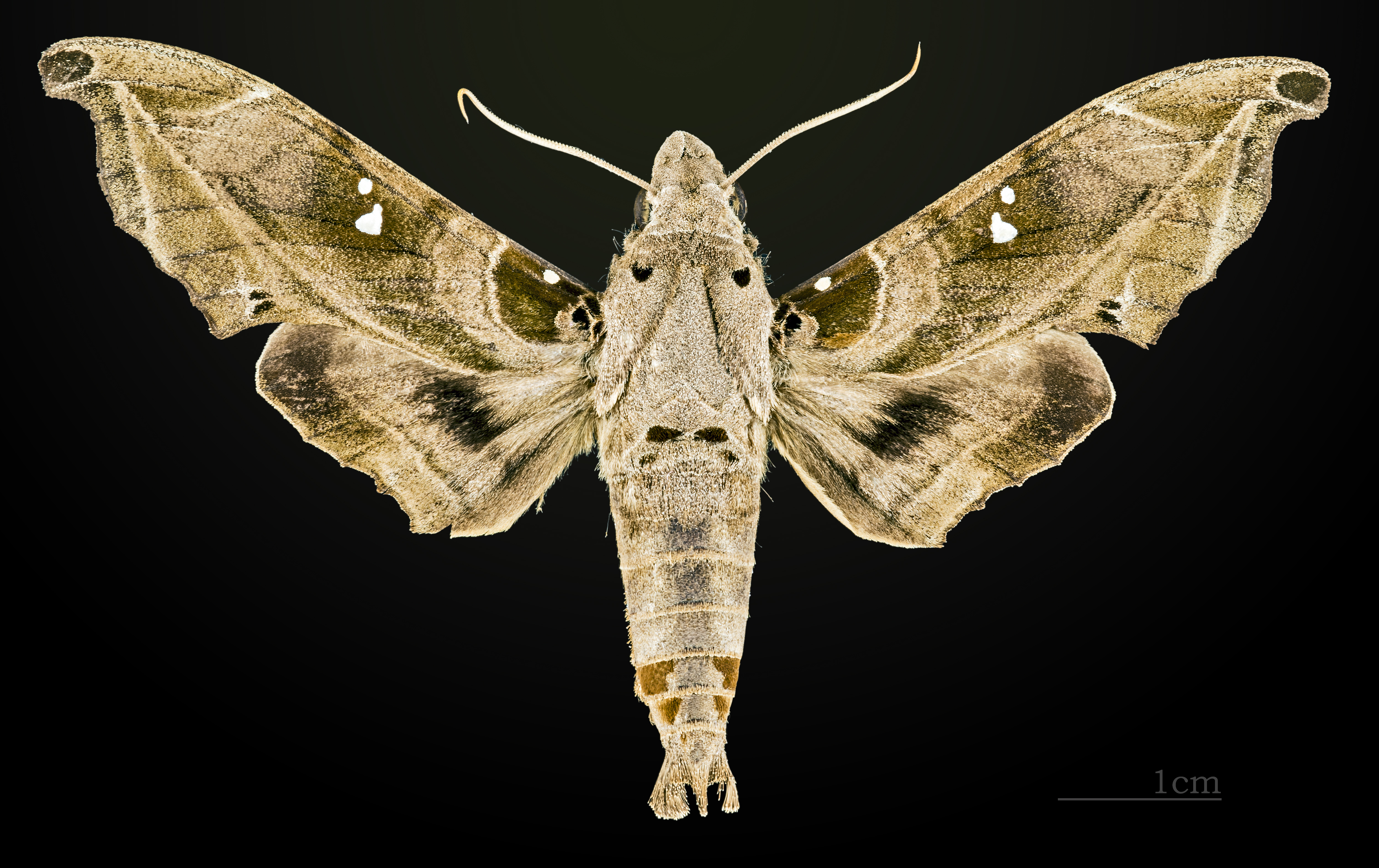 Madoryx bubastus - Dorsal side Collection of the Mathematician Laurent Schwartz